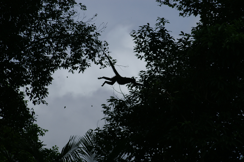 geoffroy's spider monkey